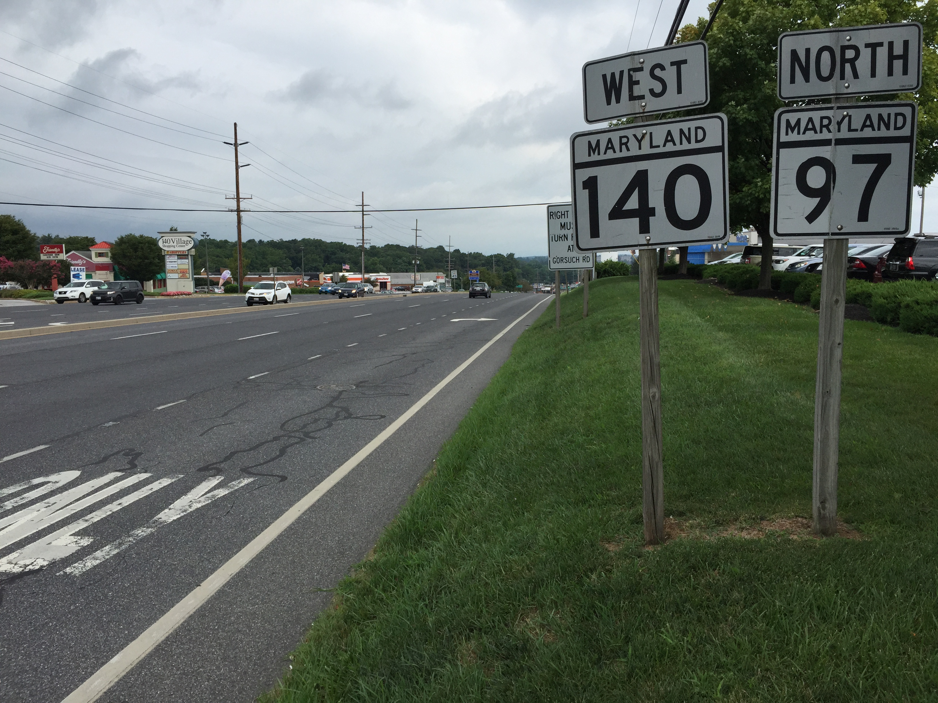 View north along Maryland State Route 97 and west along Maryland State Route 140 (Baltimore Boulevard) at Malcolm Drive in Westminster, Carroll County, Maryland